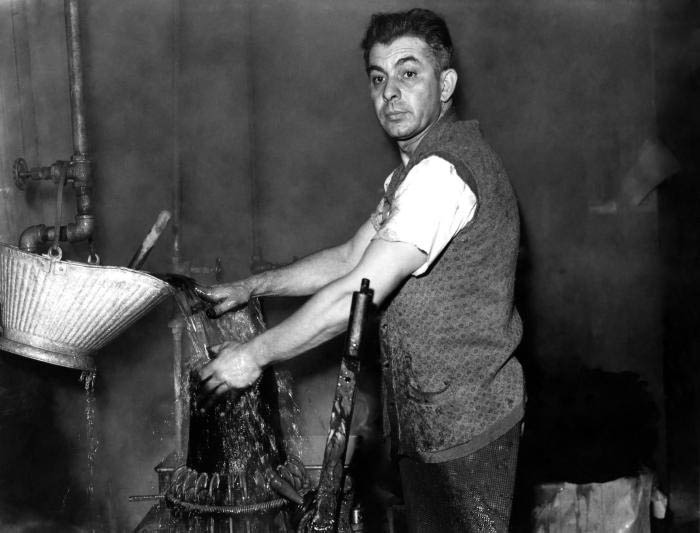 A fur hat factory worker in a Connecticut plant is “blocking” a hat under a stream of running water. Blocking involves shaping a hat using a block, hat cone in the basic shape of the final hat, and water. This man is not wearing a protective filtered breathing mask, goggles, or gloves. Working with newly processed fur, which had been “carroted”, or fixed with mercury nitrate, workers could be exposed to airborne mercury, thereby, suffering the detrimental neurologic consequences from its inhalation. Using steam, which was integral to the hatters’ industry, the airborne dissemination of this neurotoxic element was facilitated.